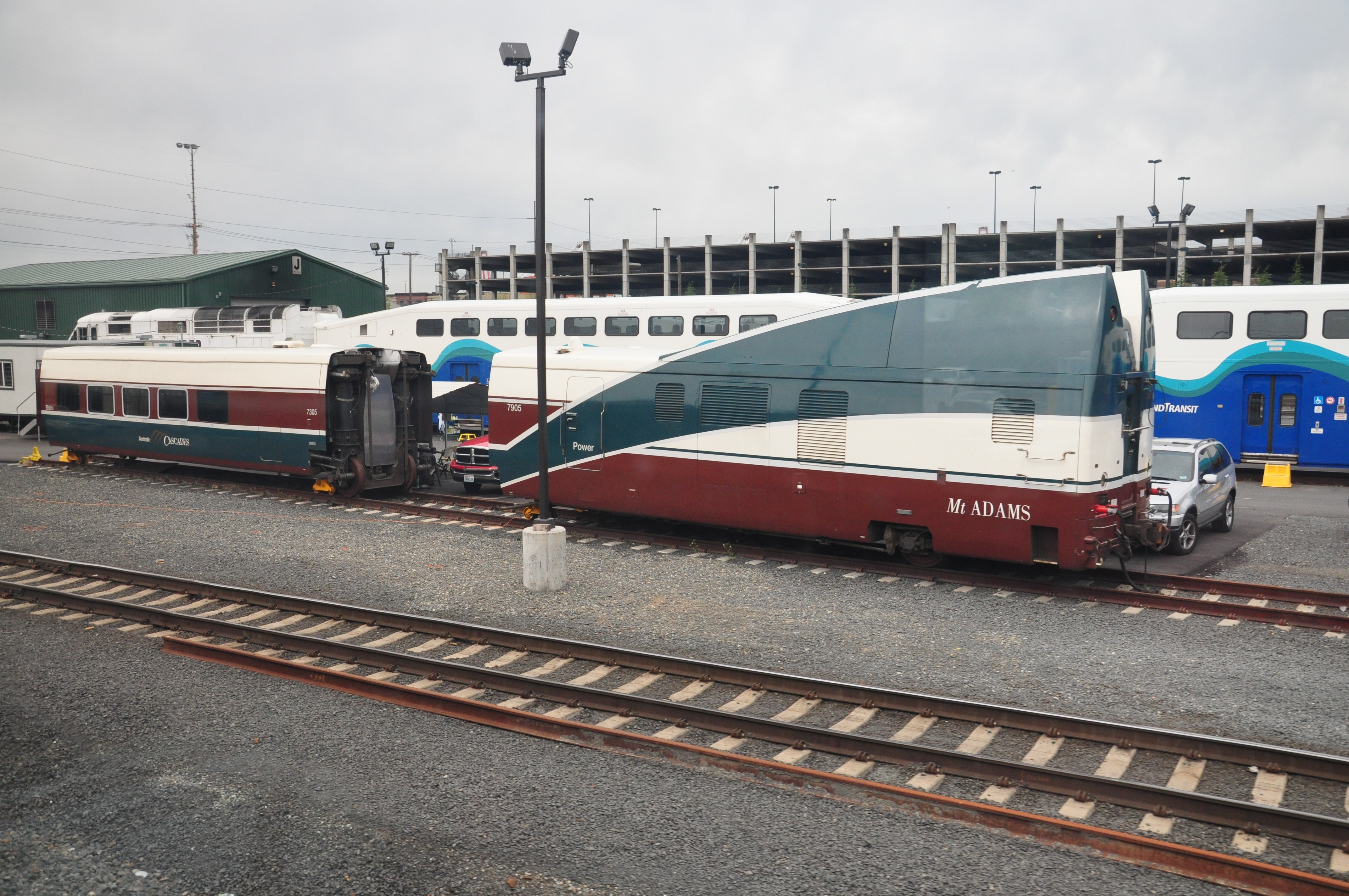 Broken down, you can see the unique 1 wheel, shared between cars trucks used by the Talgo sets.